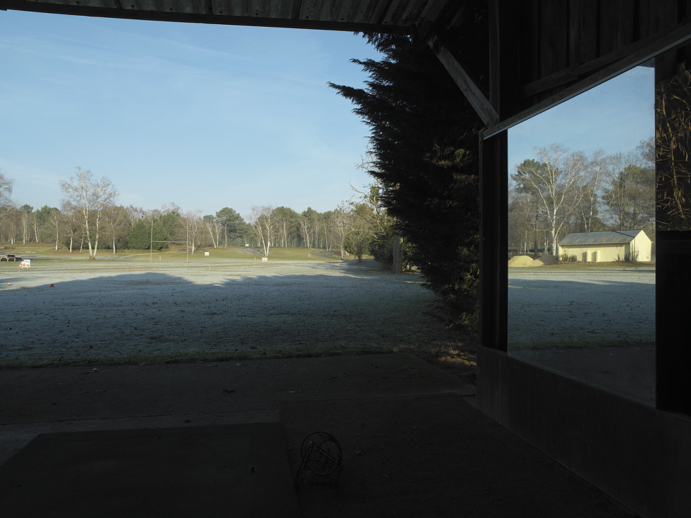 Diptych on two former concentration camps for gypsies in France